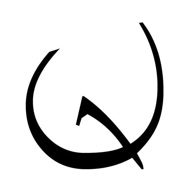 Balinese letters, called guwung macelek